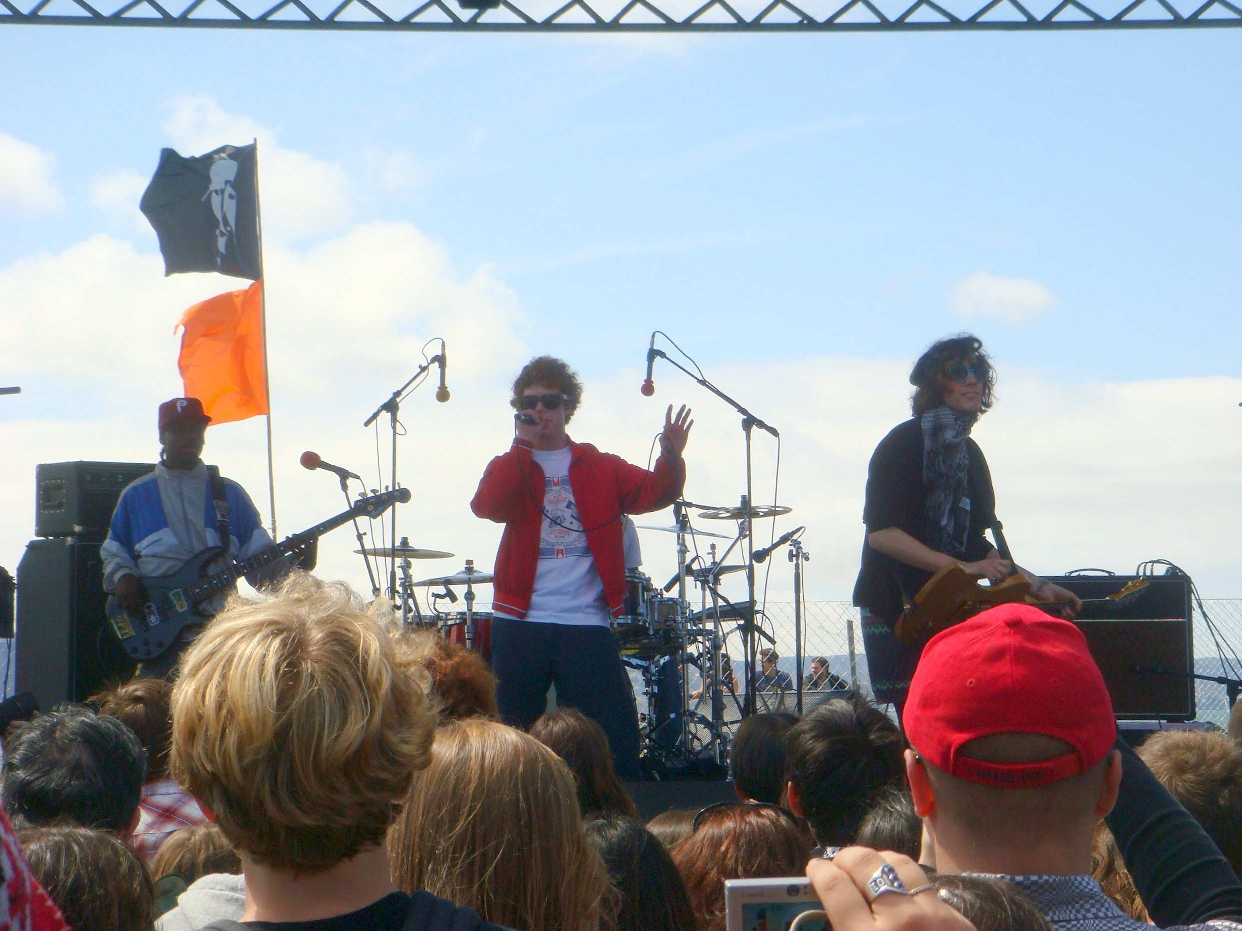 Chester French performing on Treasure Island in San Francisco, California, on September 20, 2008.